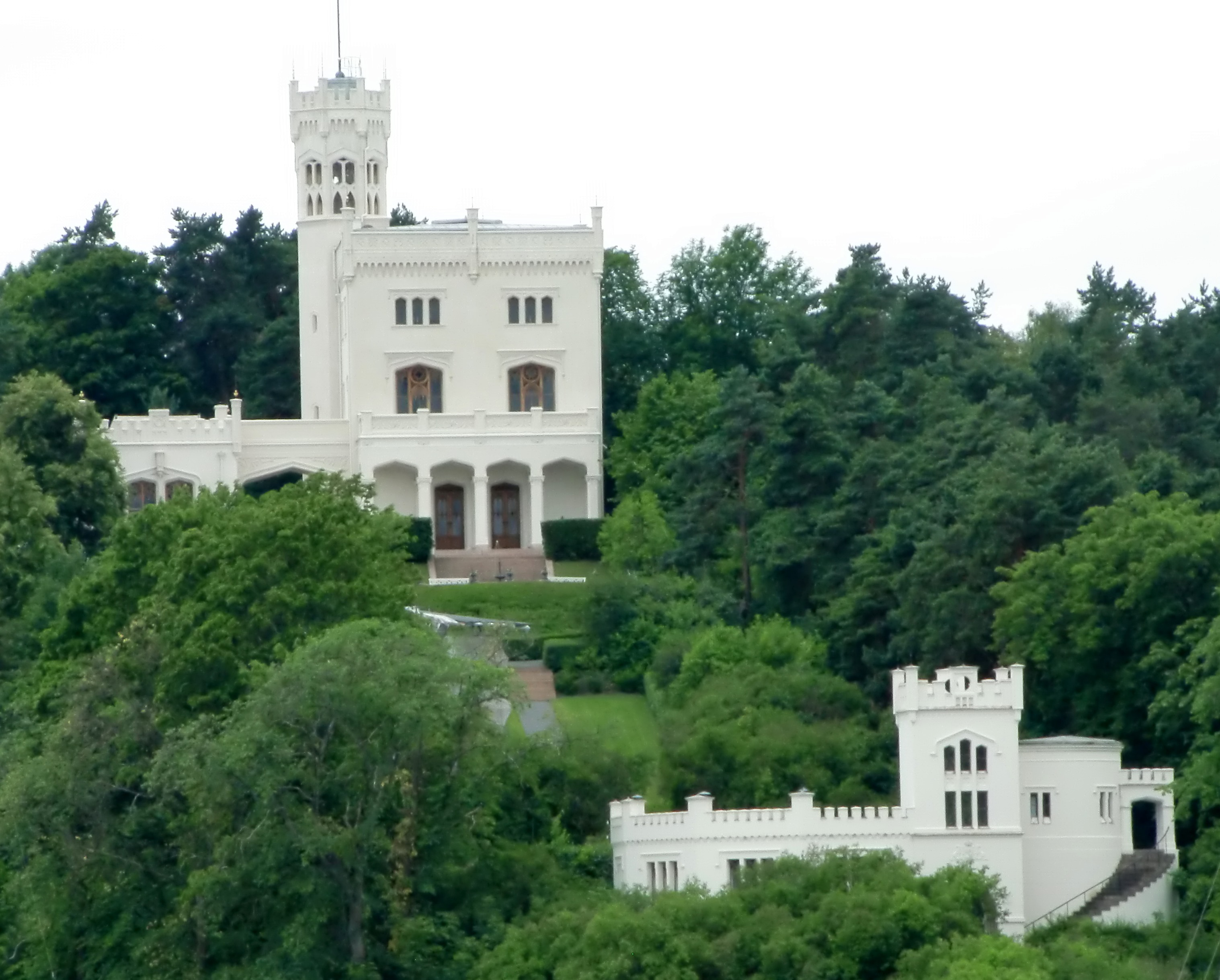 Oscarshall